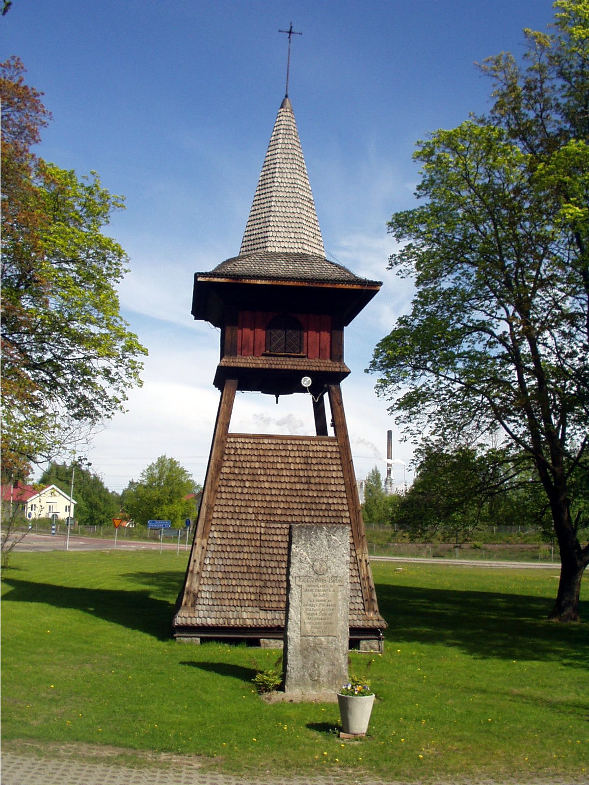 Church of Iggesund.